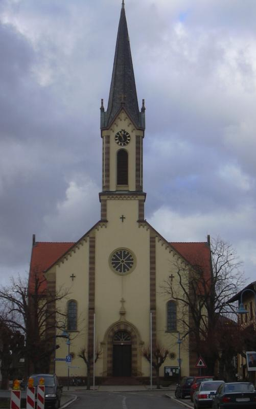 The catholic church of Karlsdorf, Germany